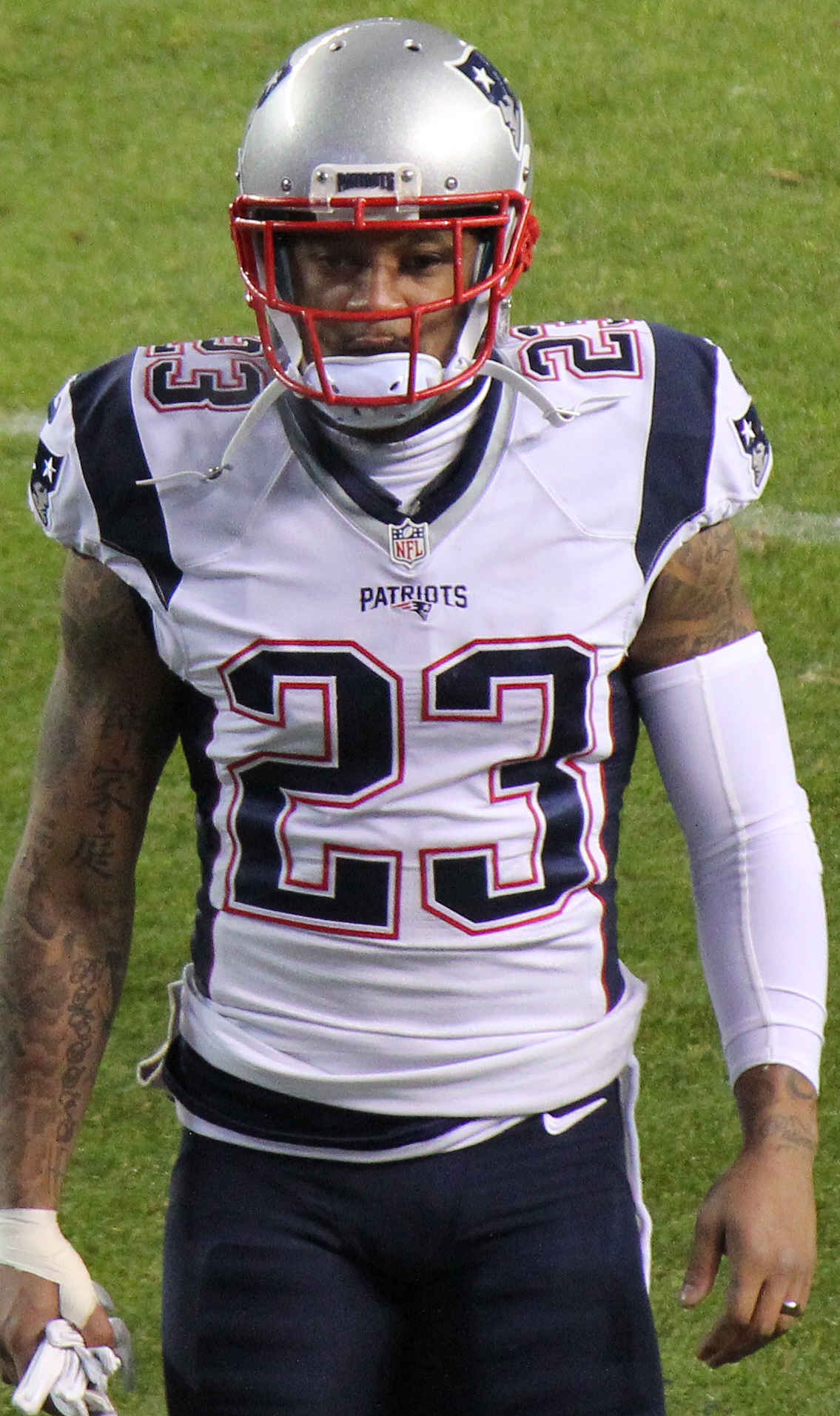 Patrick Chung, a player on the National Football League.